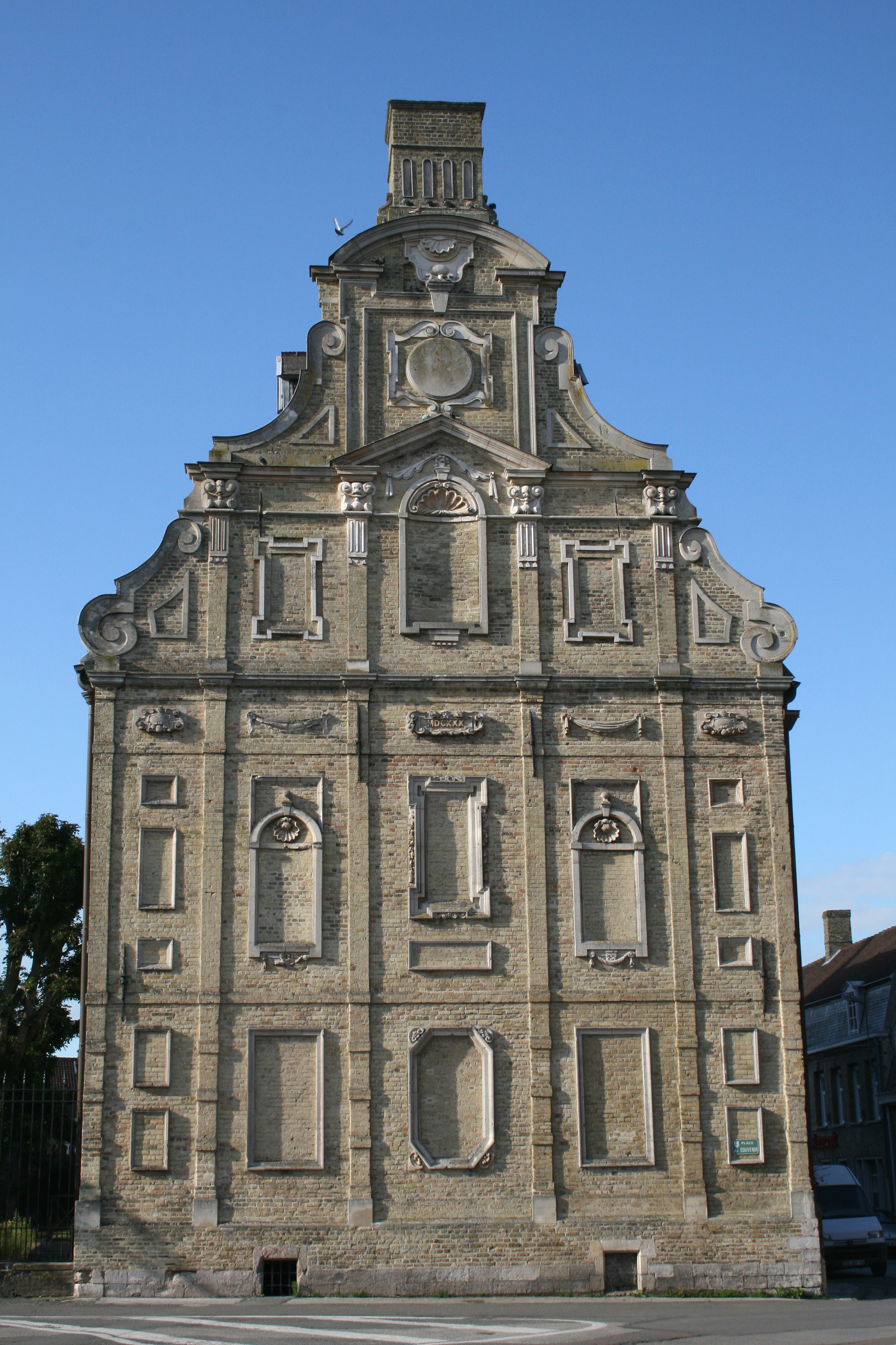 Bergues (Nord) France, the previous mount of piety built betwenn 1630 and 1633 according to the plans of the architect: Wenceslas Coberg.